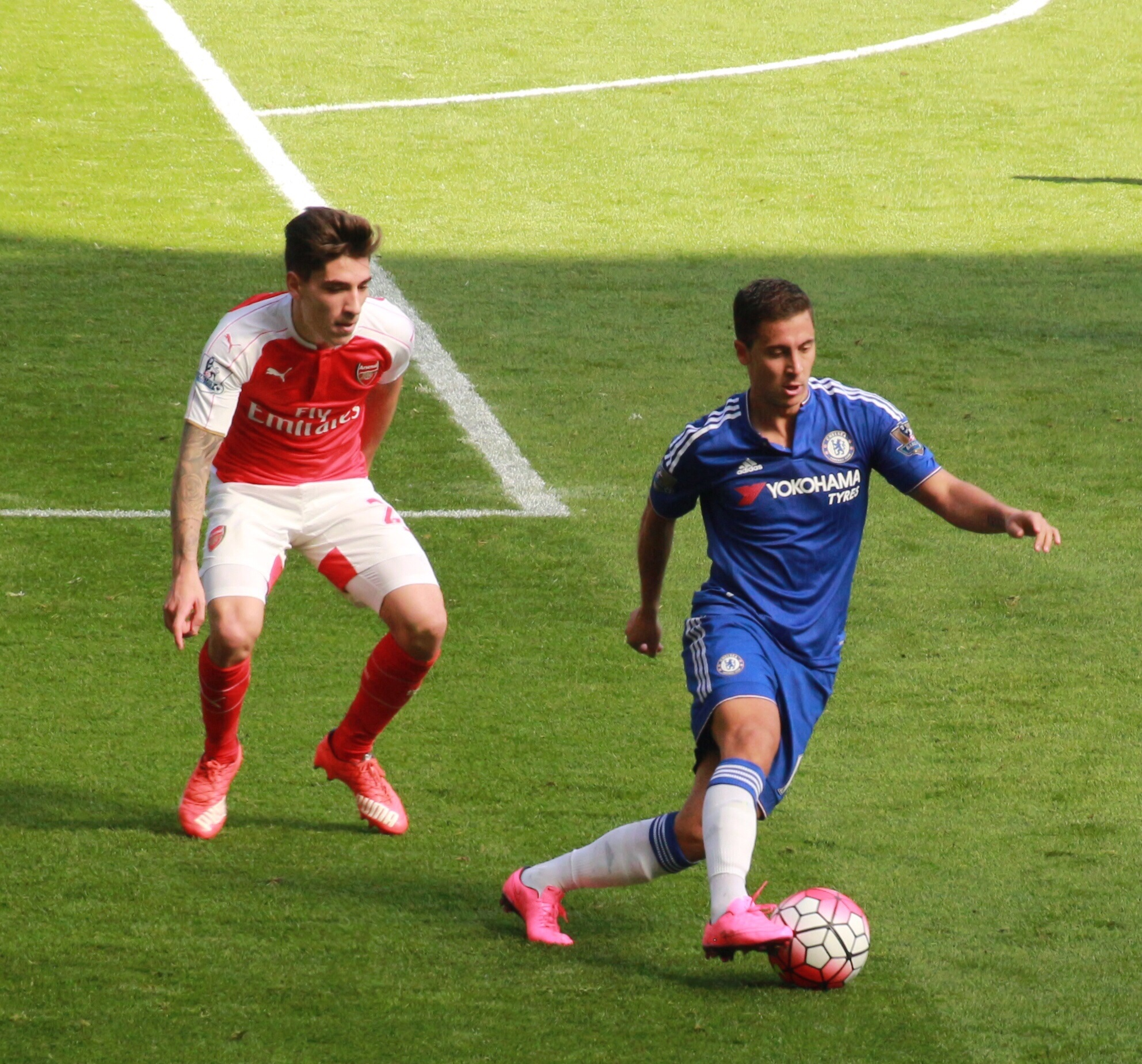 Eden Hazard vs Arsenal 2015